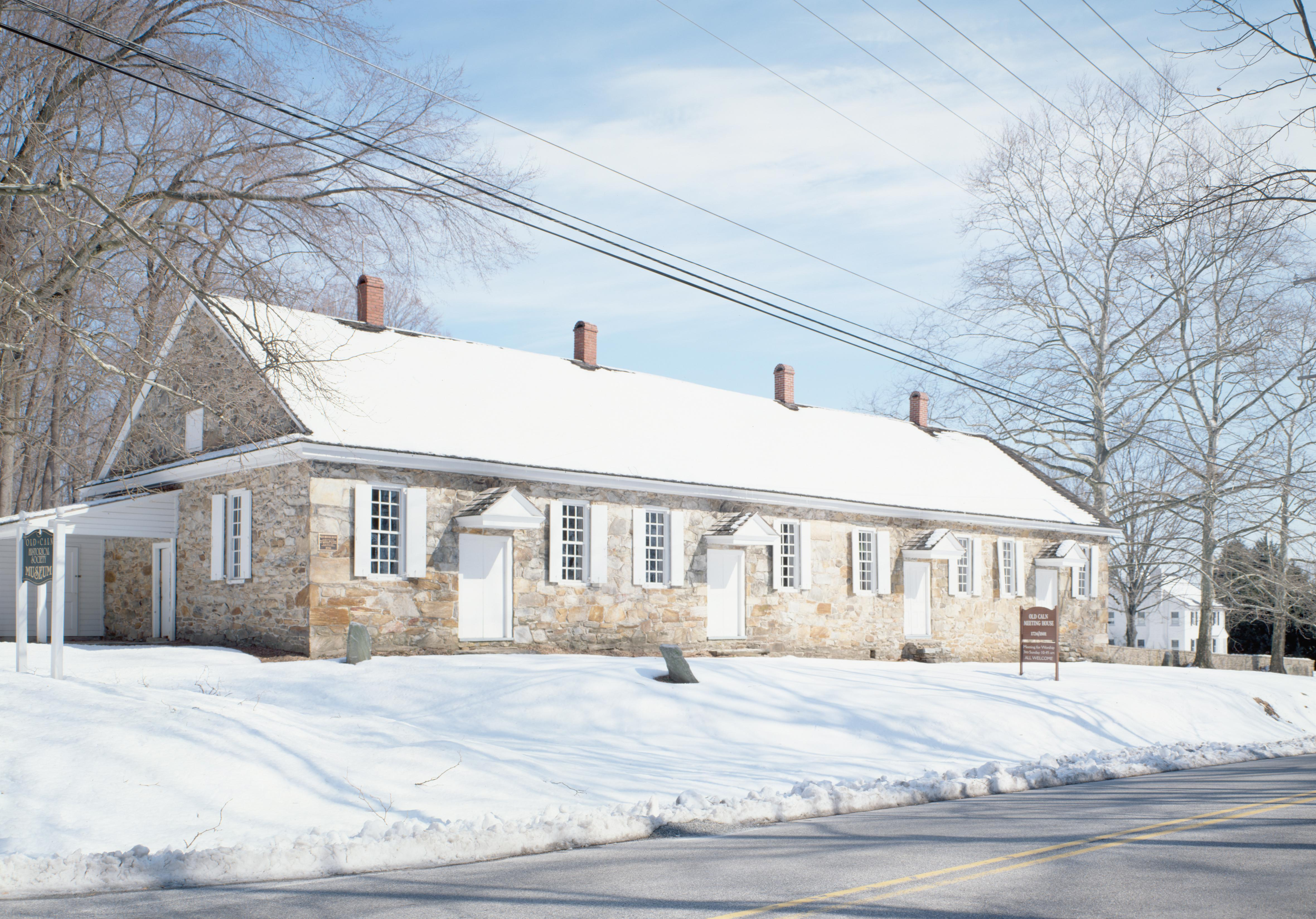 Side of the Caln Meeting House, located at 901 Caln Meeting House Road near Coatesville in Caln Township, Chester County, Pennsylvania, United States. Built in 1726, the church is listed on the National Register of Historic Places.